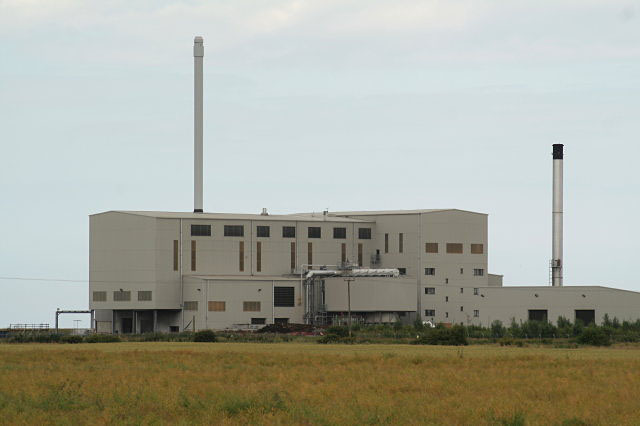 Chemical plant A newly built addition to one of the coastal chemical plants.